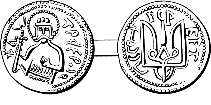 ... from the coin of Kyiv Rus times ...